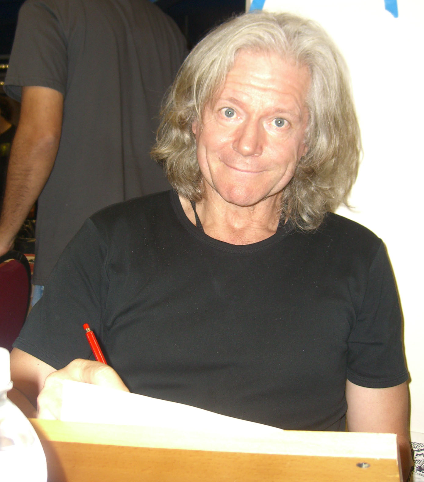 Comic book creator James Sherman at the November 2008 Big Apple Convention in Manhattan.